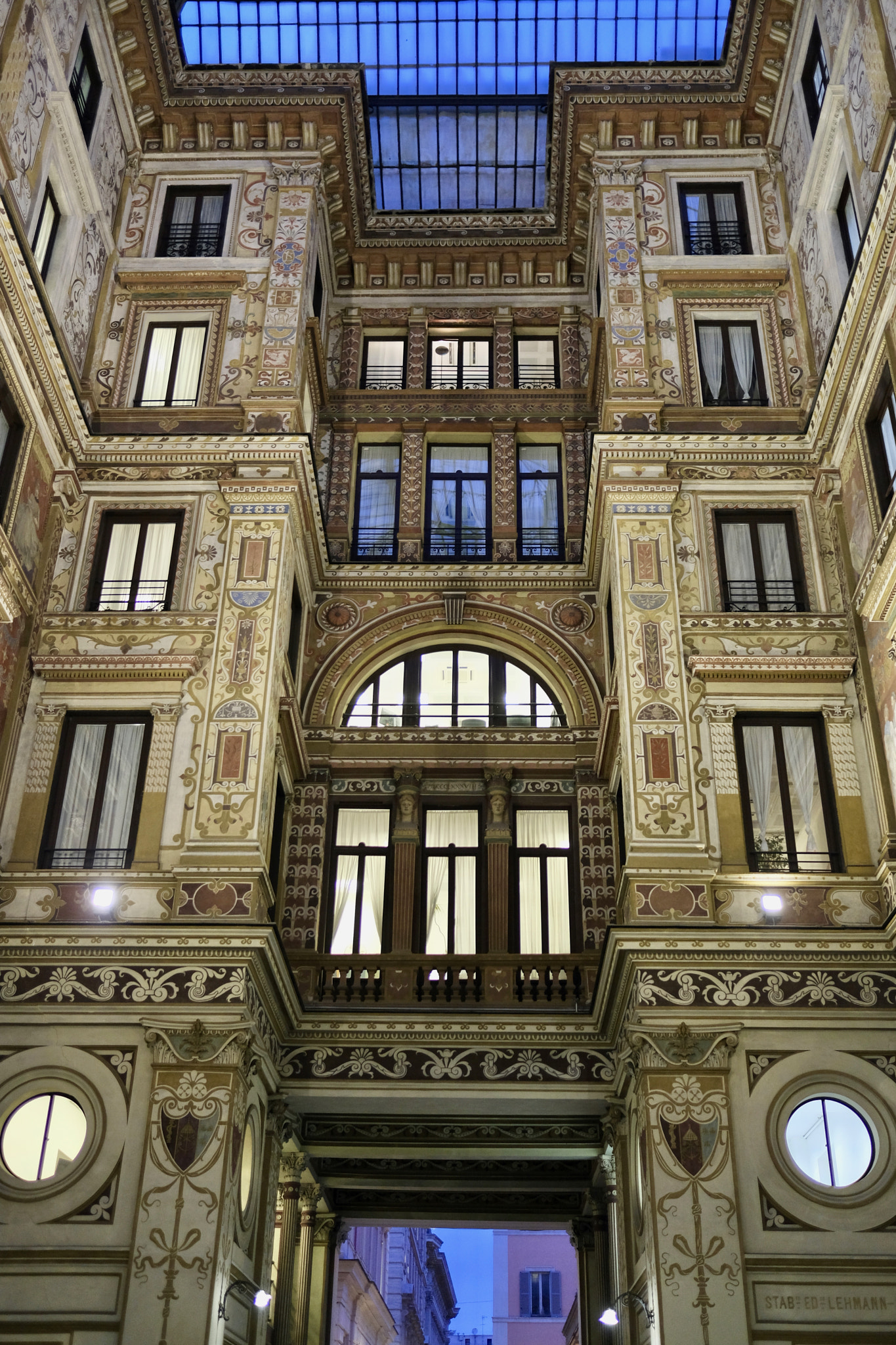 500px provided description: Innside Rome at night [#italy ,#urban ,#architecture ,#arch ,#lecce ,#cathedral ,#landmark ,#duomo ,#column ,#historical ,#historic ,#ancient rome ,#edifice ,#architectural feature]